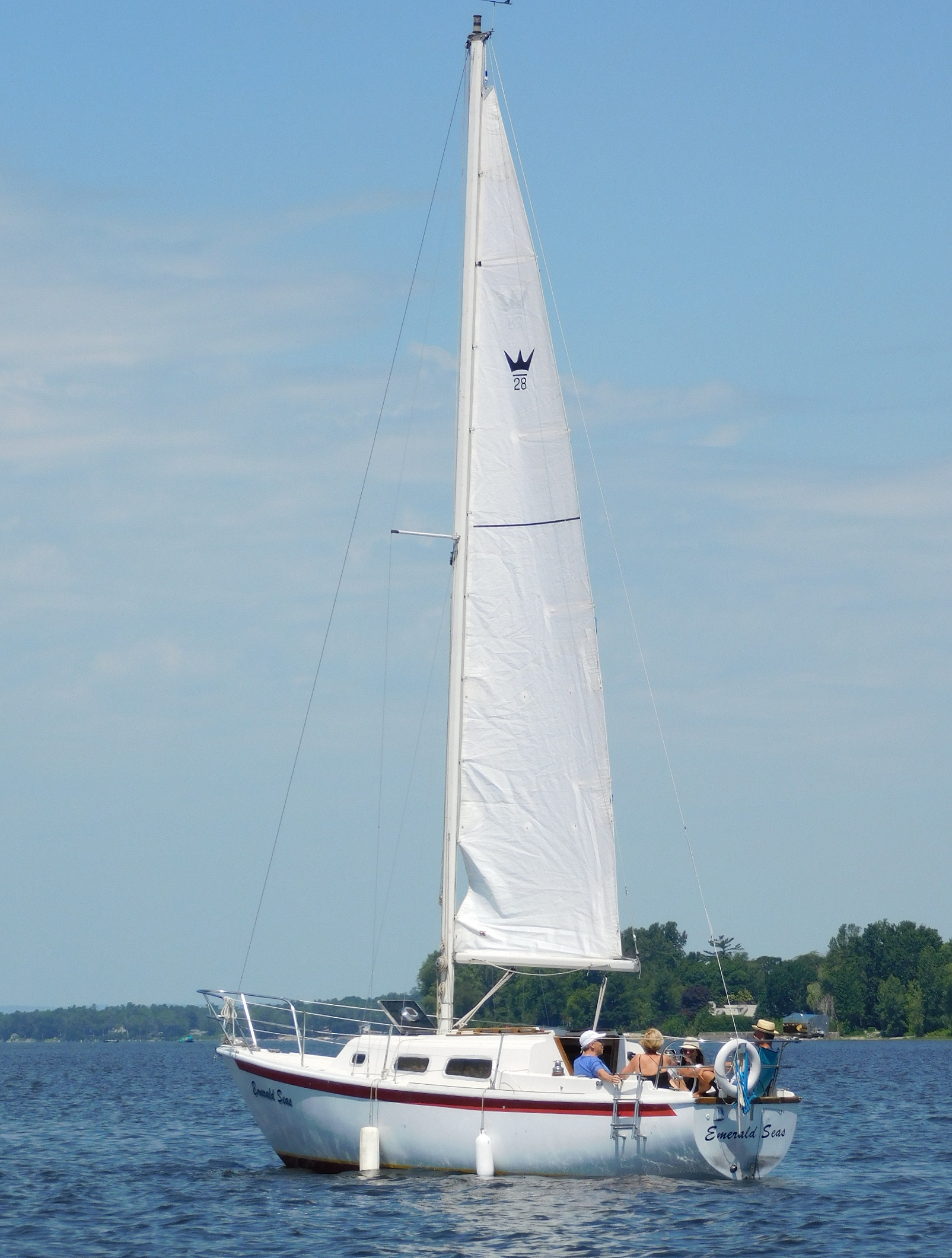 A Crown 28 sailboat named Emerald Seas.